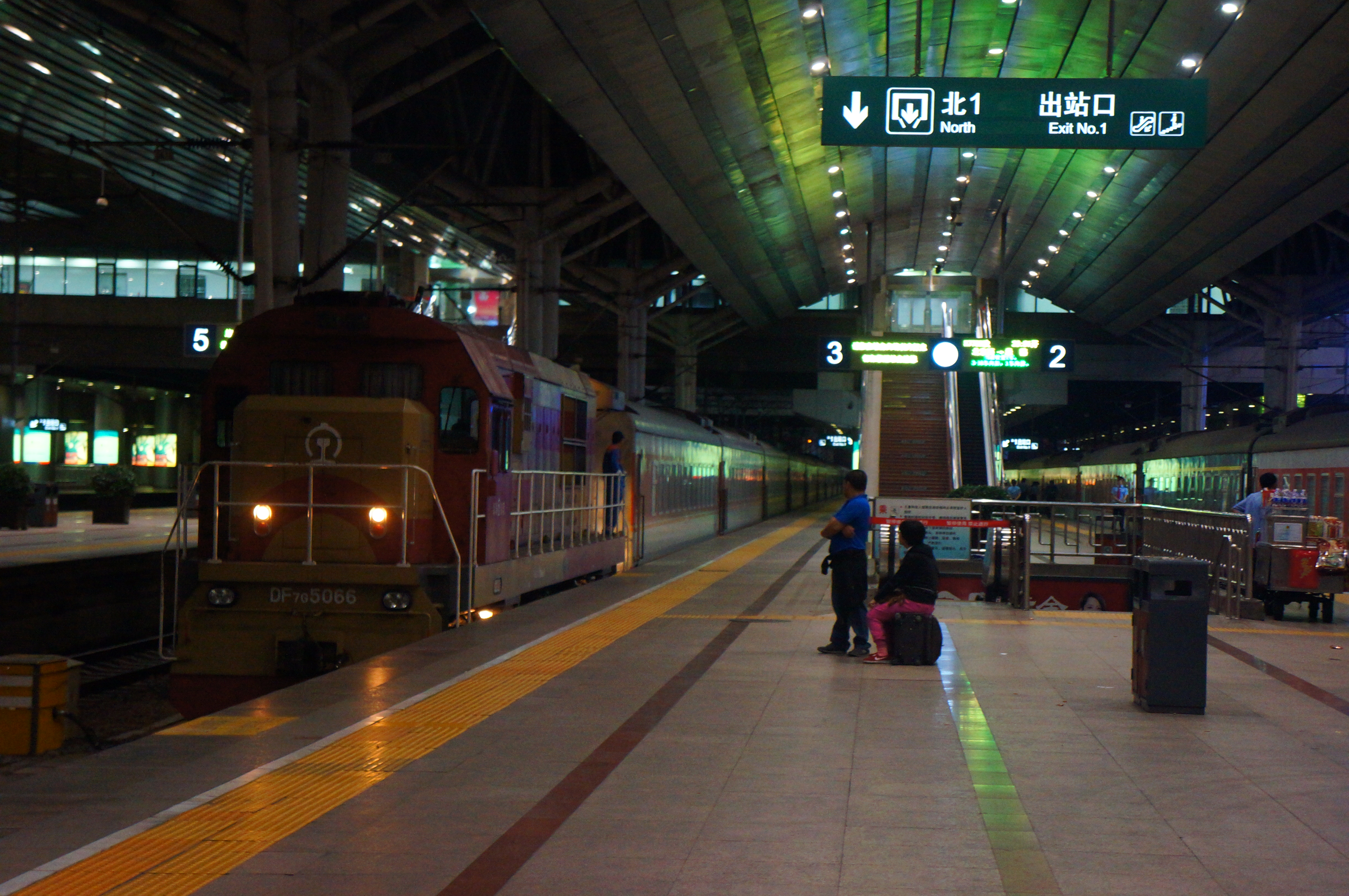 201606 0K21 was pulled away from Beijingxi Station